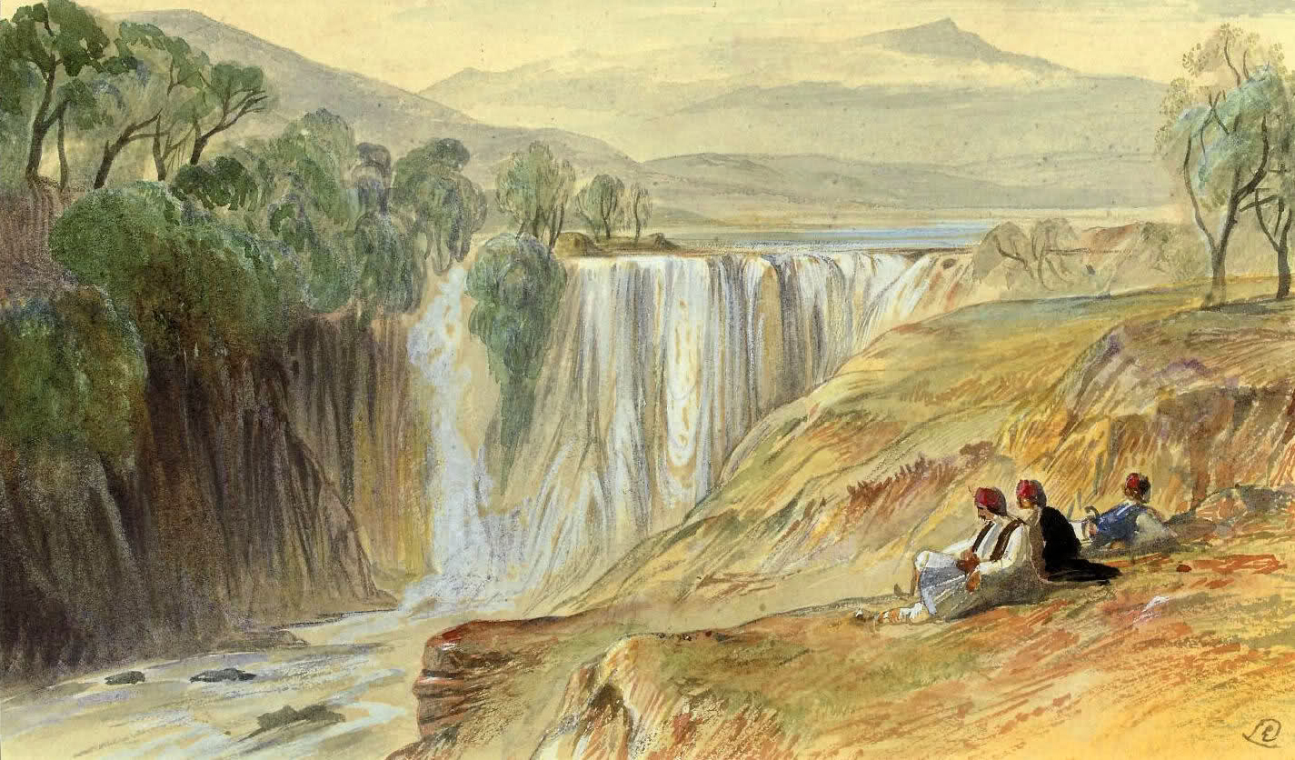 The falls of the Kalama Albania 1851 (Edward Lear 1812-1888)